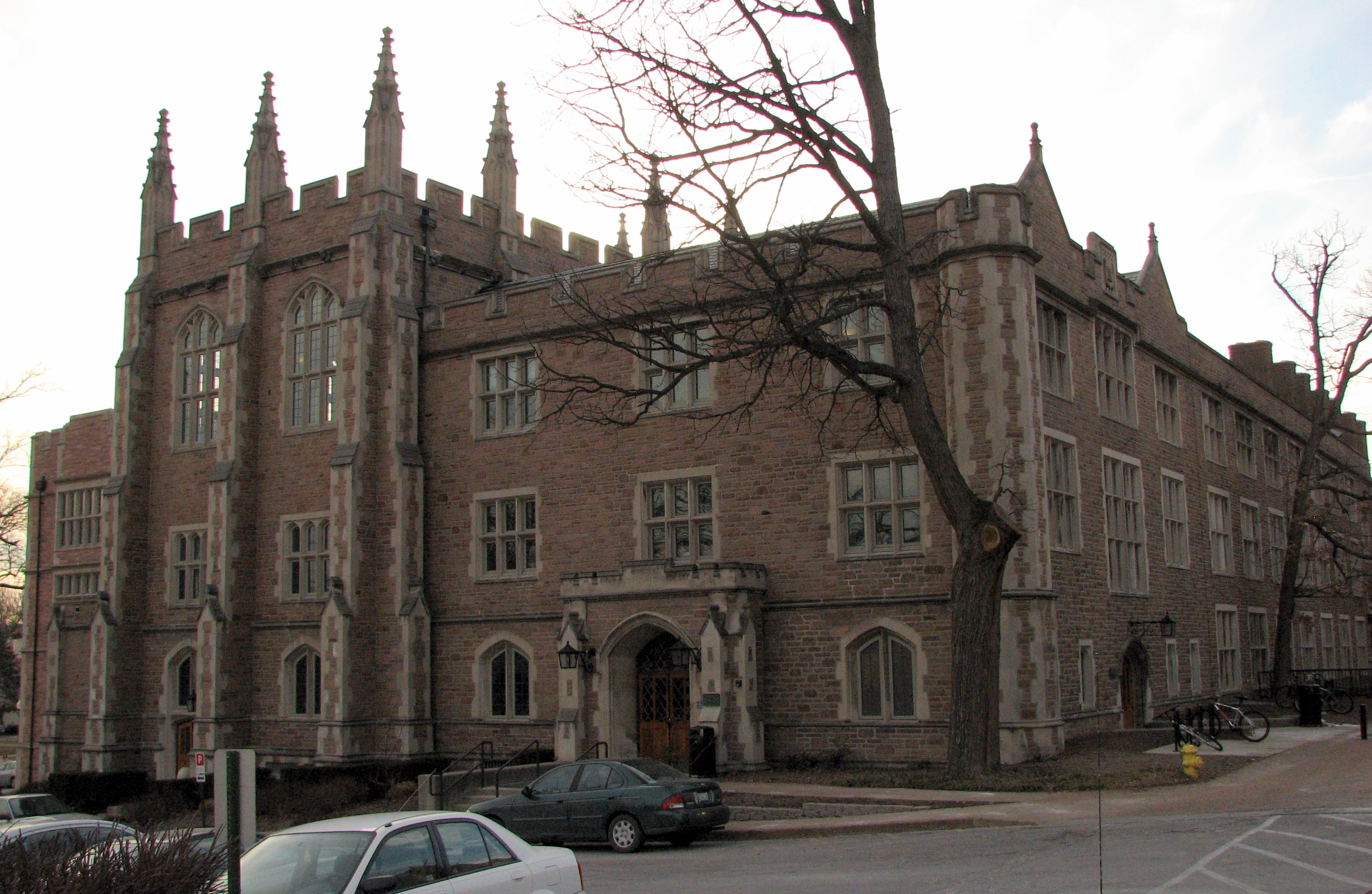 Brown Hall Photo taken by MIN, Baili 22:50, 11 February 2007 (UTC)